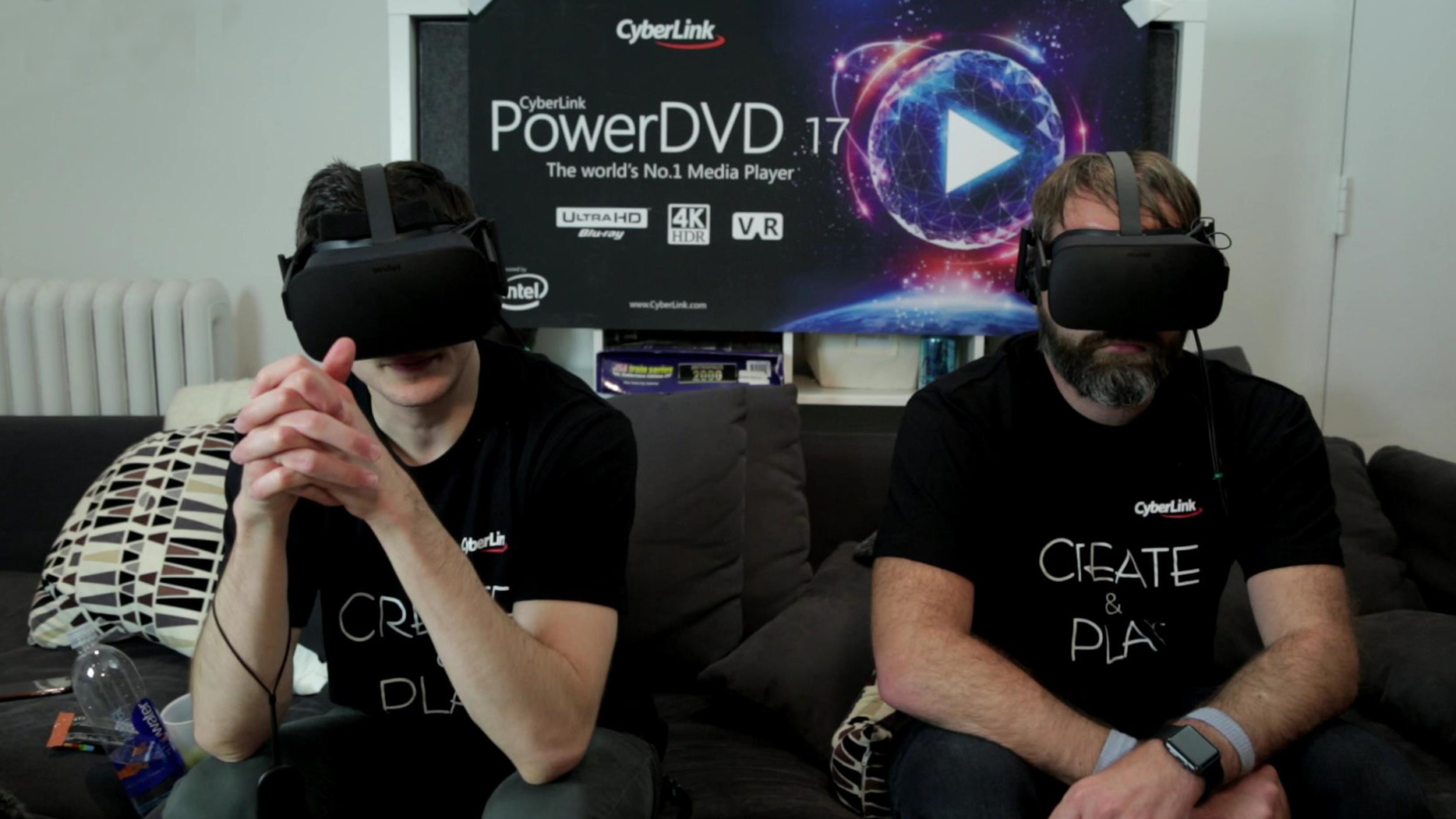 Two New Yorkers have landed the first Guinness World Record for a nonstop VR-viewing marathon at 50 hours.